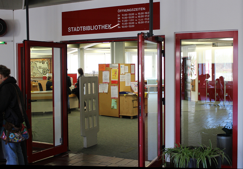 Entrance of the public library of Dorsten